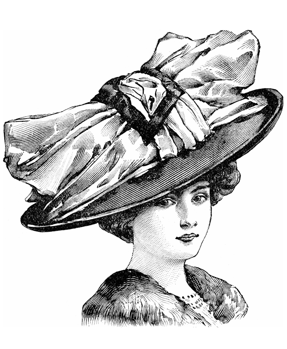 3916 Hat tendu (tense) velvet navy, plum, bronze, taupe, black with a big bow taffeta chameleon changing and loop pile. 38.